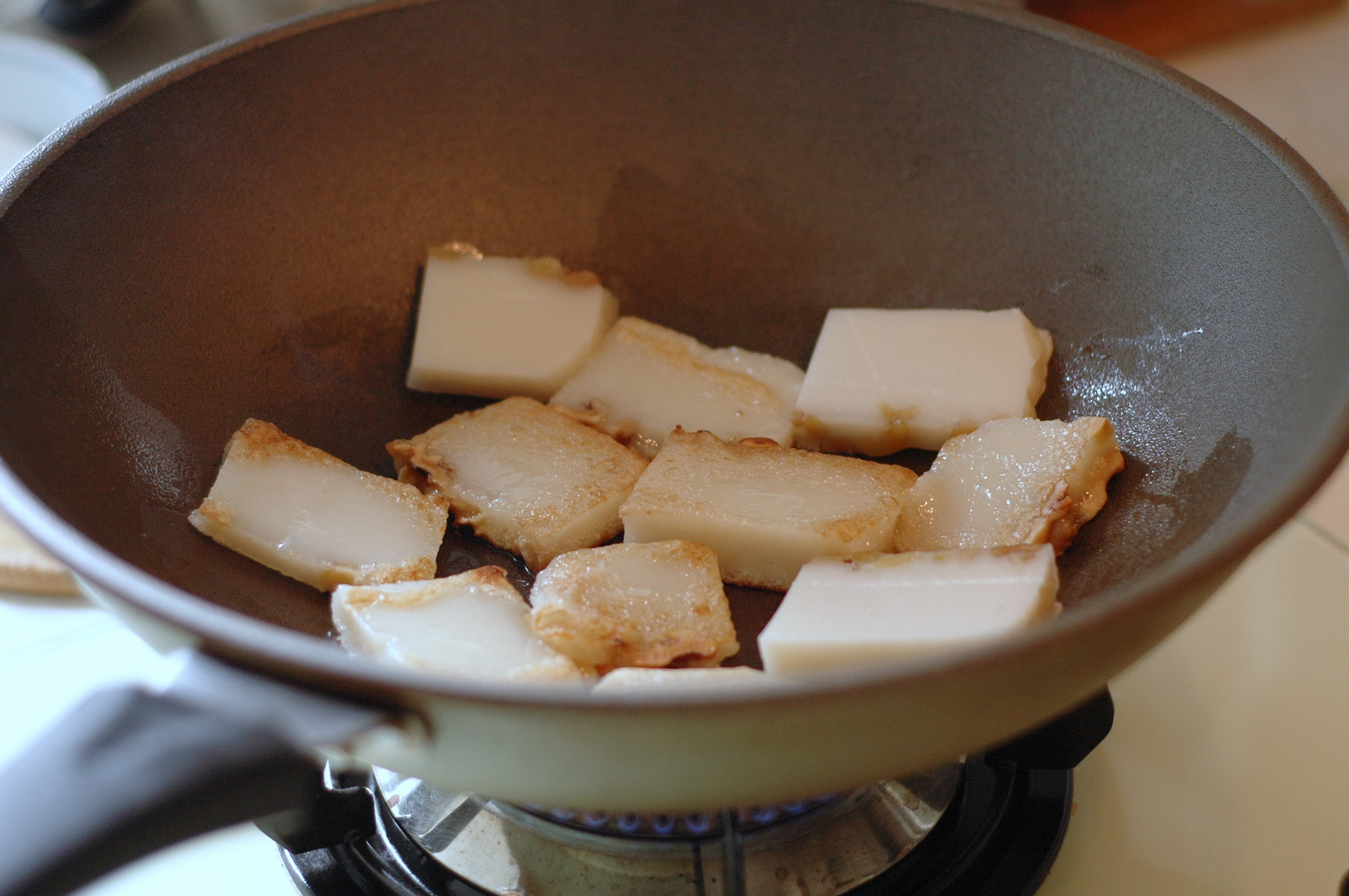 Hong Kong style coconut milk cake (Chinese New Year's cake or Nian gao). Manufactured by Wah Lai Yuen, Hong Kong.